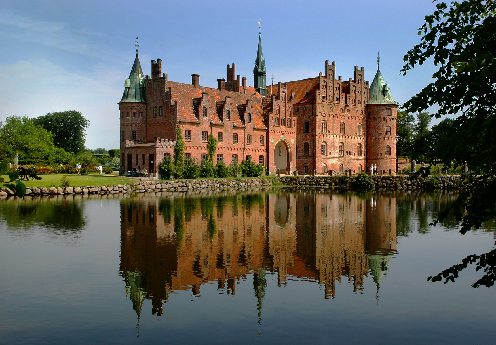 Egeskov Castle, Denmark